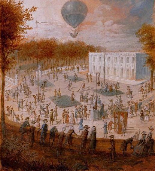 Drawing of the Château de Marly le Roi attributed to Louis Nicolas van Blarenberghe